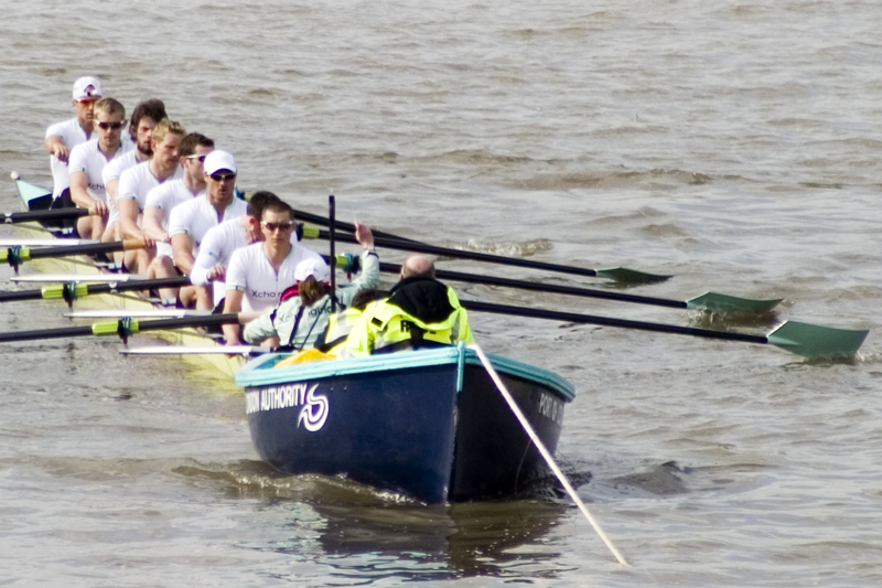 Cambridge VIII at their stake boat on the Surrey station before the start of the 2009 Oxford and Cambridge Boat Race just upstream of Putney Bridge. The bow side oarsmen have their blades "overfeathered" to keep them out of the strong stream, a feature almost unique to the start of the boat race, and the cox's right arm is raised to indicate that the crew is not ready for the start.